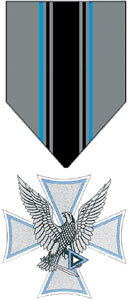 Estonian Air Force 3rd Class Service Cross